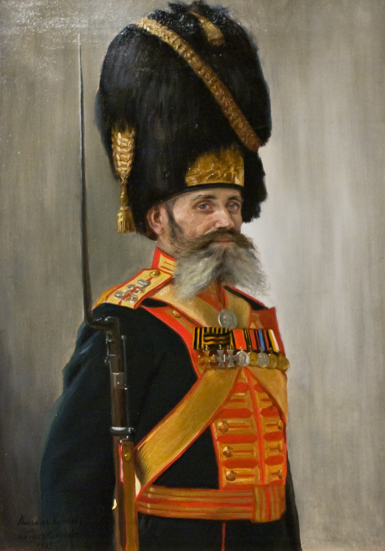 Vladimir Poyarkov Portrait of Michael Kulakov, Private of Place Grenadier Company